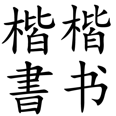 Kaishu script, traditional hanzi on the left and simplified on the right